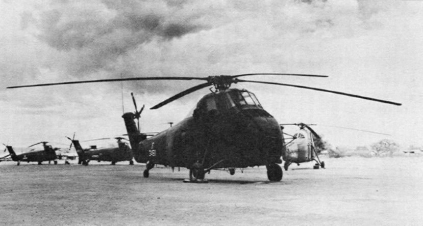 South Vietnamese Air Force Sikorsky CH-34A Choctaw helicopters (US Army s/n 53-4511 is in the foreground) at Tan Son Nhut airbase, South Vietnam, in the 1960s.